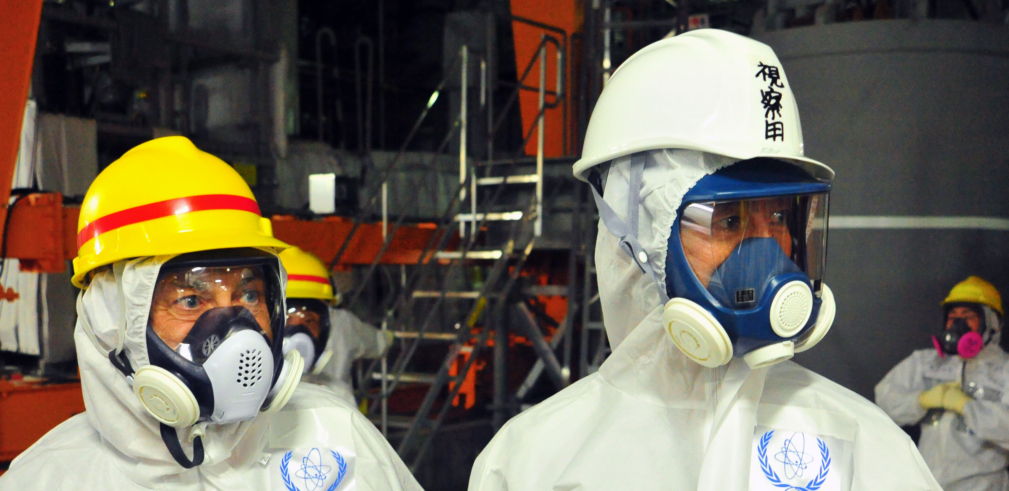 IAEA experts Nesimi Kilic (left), of the IAEA's Nuclear Energy Department, and Pil-Soo Hahn, of the Agency's Nuclear Safety Department, examine a water decontamination facility at TEPCO's Fukushima Daiichi Nuclear Power Station on 27 November 2013. The facility, the Advanced Liquid Processing System, removes certain radioactive materials from water at the site. The expert team is assessing Japanese efforts to decommission the stricken nuclear power plant. Photo Credit: Greg Webb / IAEA